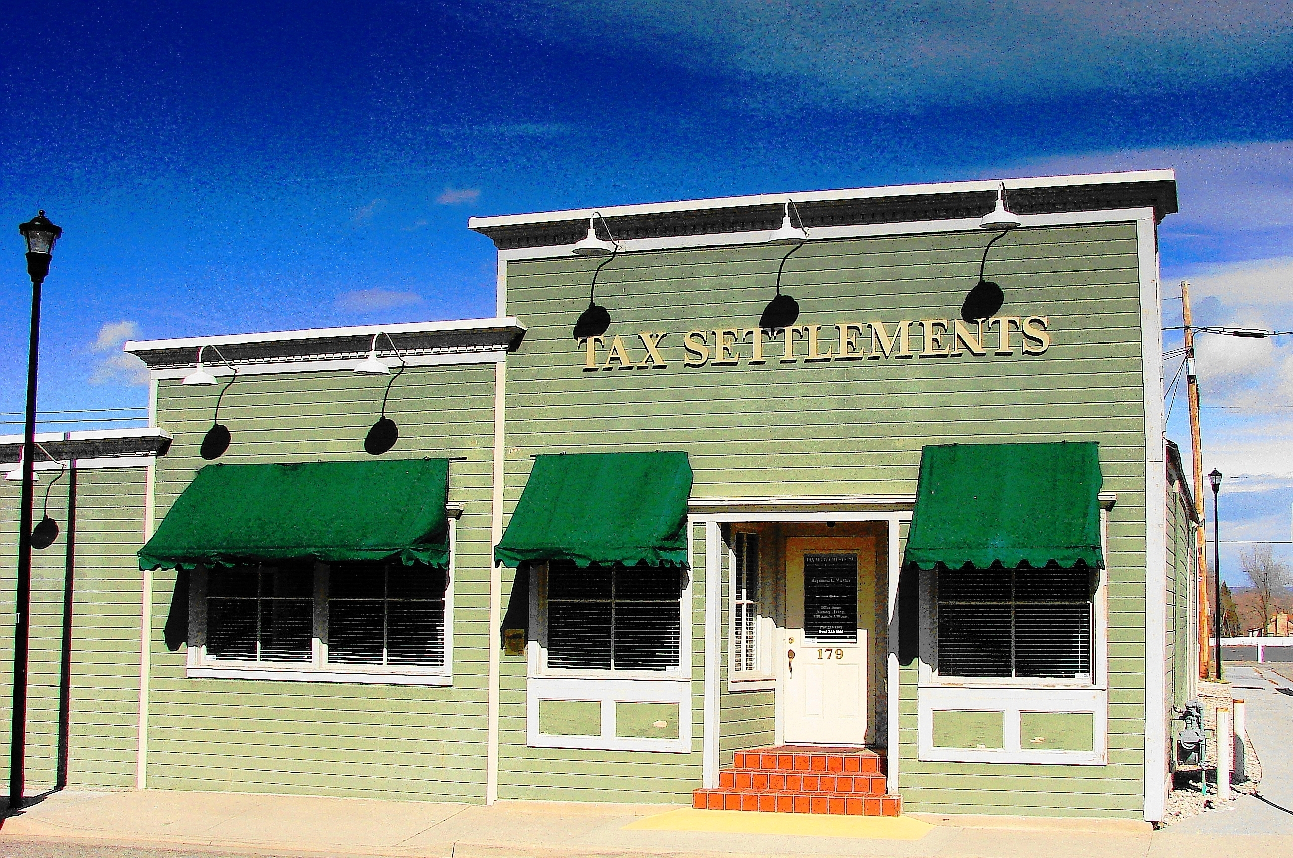 Located in Sandy, Utah